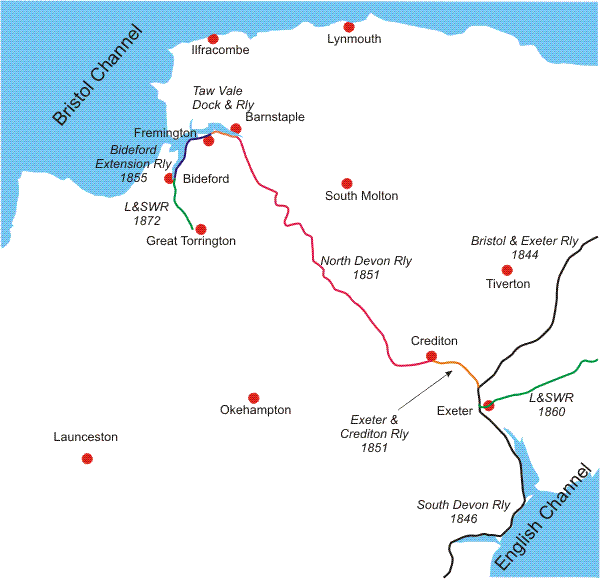 Diagram of railways in the North Devon Railway group